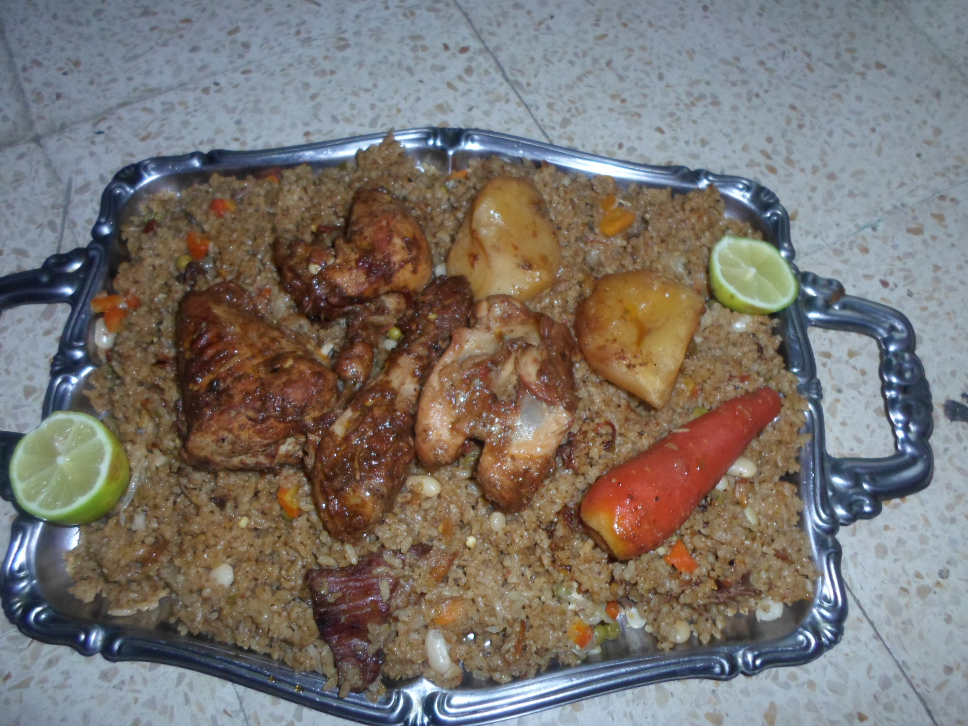 This is an image of food from Guinea